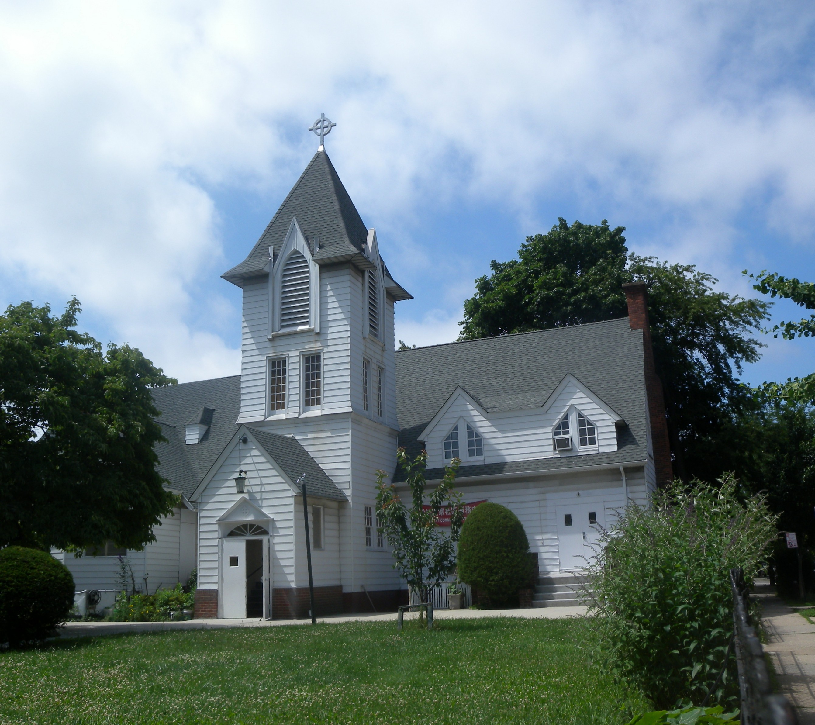 Looking northwest at church on a partly cloudy afternoon.